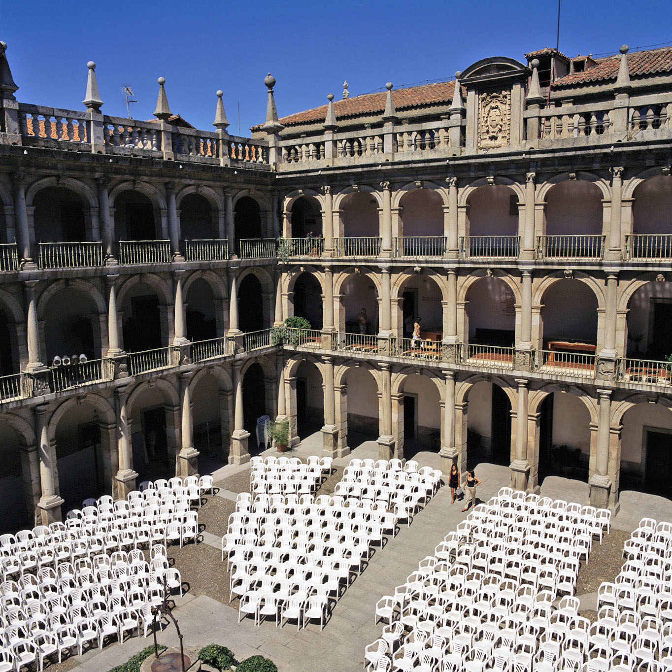 University and Historic Precinct of Alcalá de Henares (Spain)